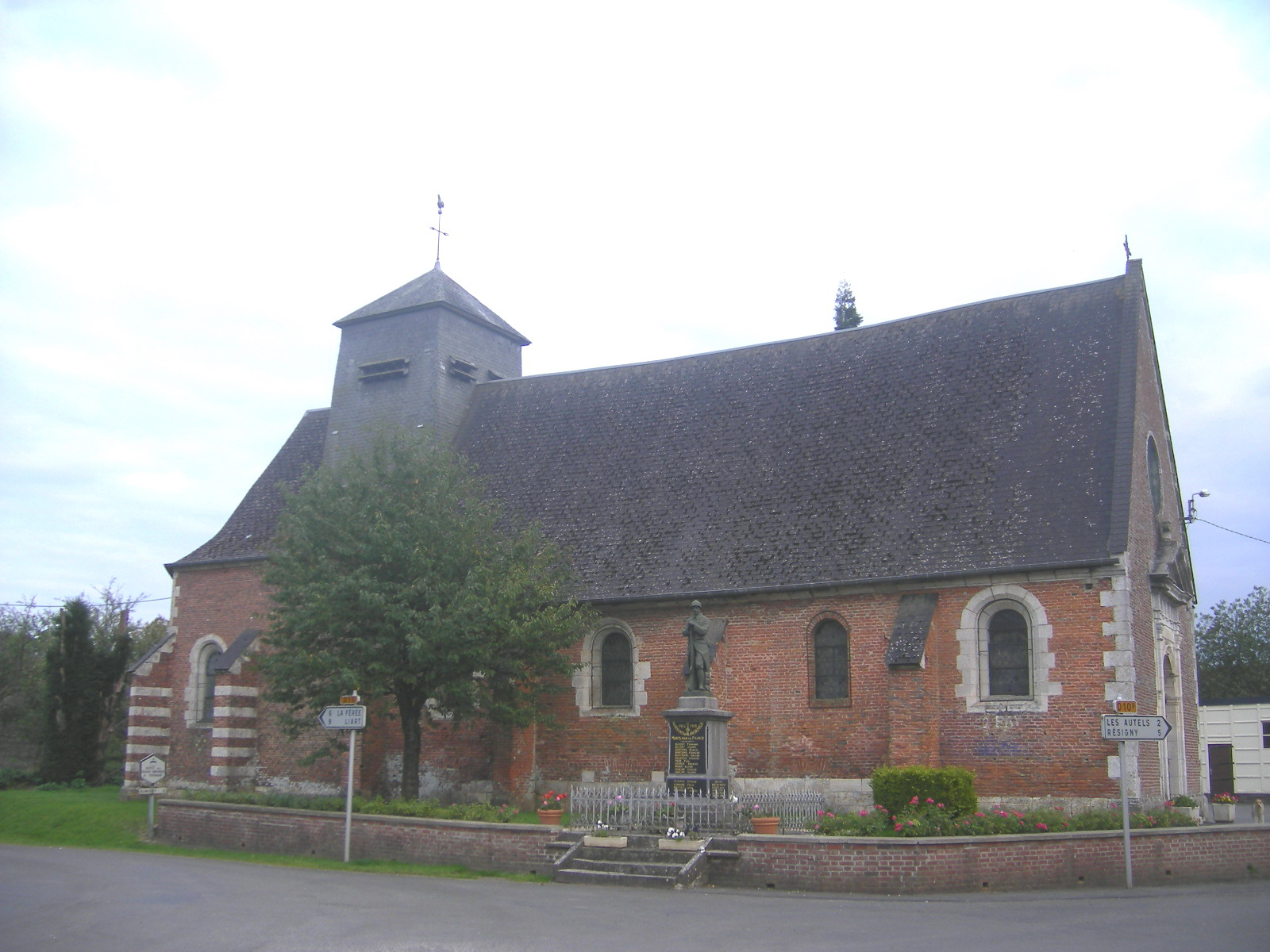 Blanchefosse